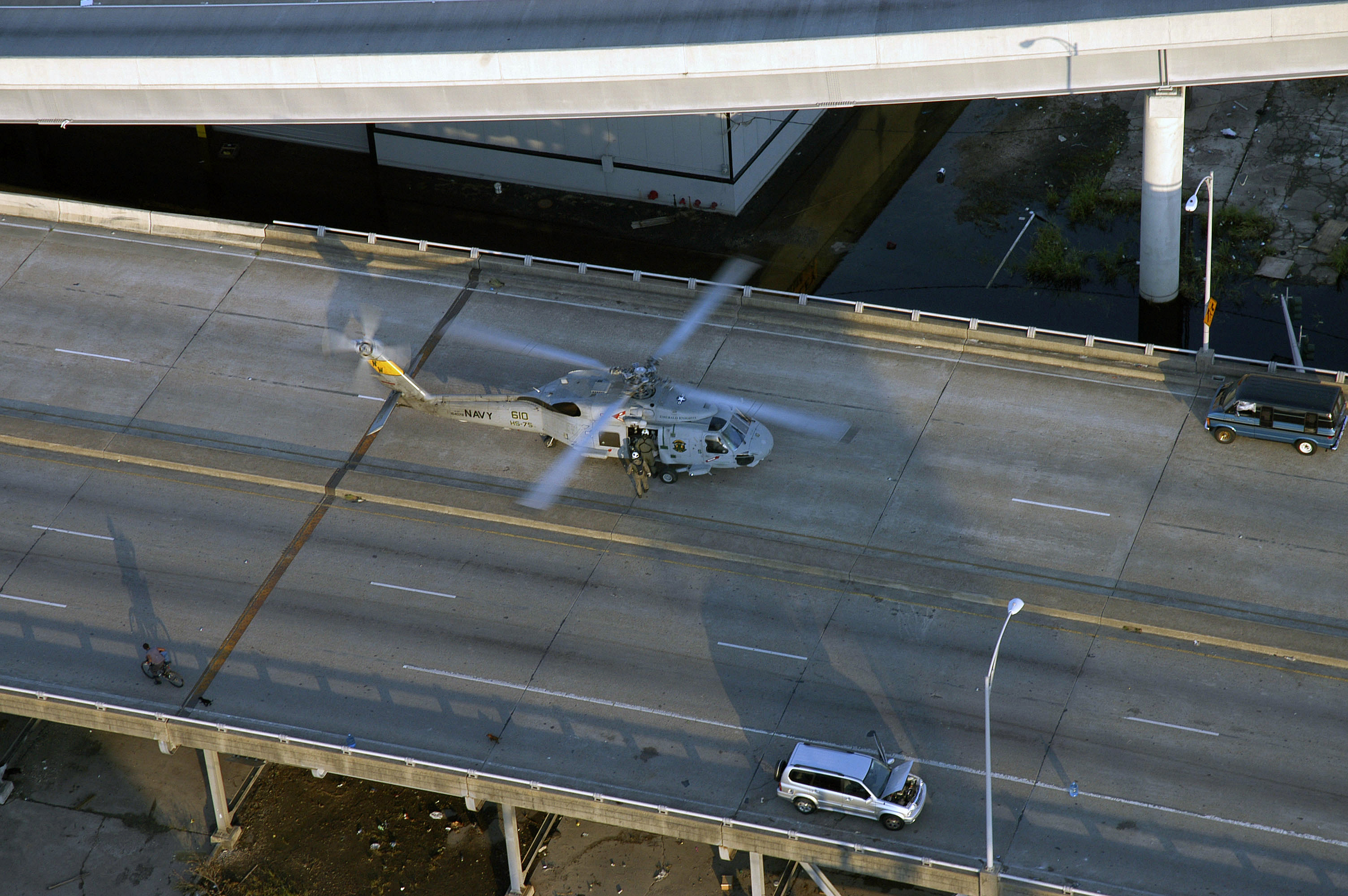 A US Navy (USN) Reserve SH-60F SEAHAWK helicopter, Helicopter Anti-Submarine Squadron 75 (HS-75), Naval Air Station (NAS) Jacksonville, Florida (FL), lands in the middle of a highway overpass, near the New Orleans Superdome, to pick up crew members prior to conducting search and rescue operations in the New Orleans area. The Navy's involvement in the Hurricane Katrina Humanitarian Assistance Operations is led by the Federal Emergency Management Agency (FEMA), in conjunction with the Department of Defense (DoD). Location: NEW ORLEANS, LOUISIANA (LA) UNITED STATES OF AMERICA (USA) (Location appears to be US 90 just west of interchange with I-10 and Business US 90.)